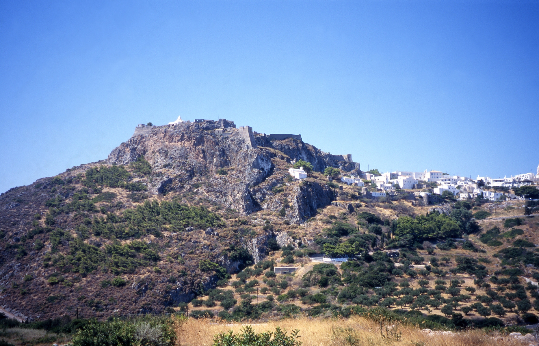 View on Hora, Island of Kythira